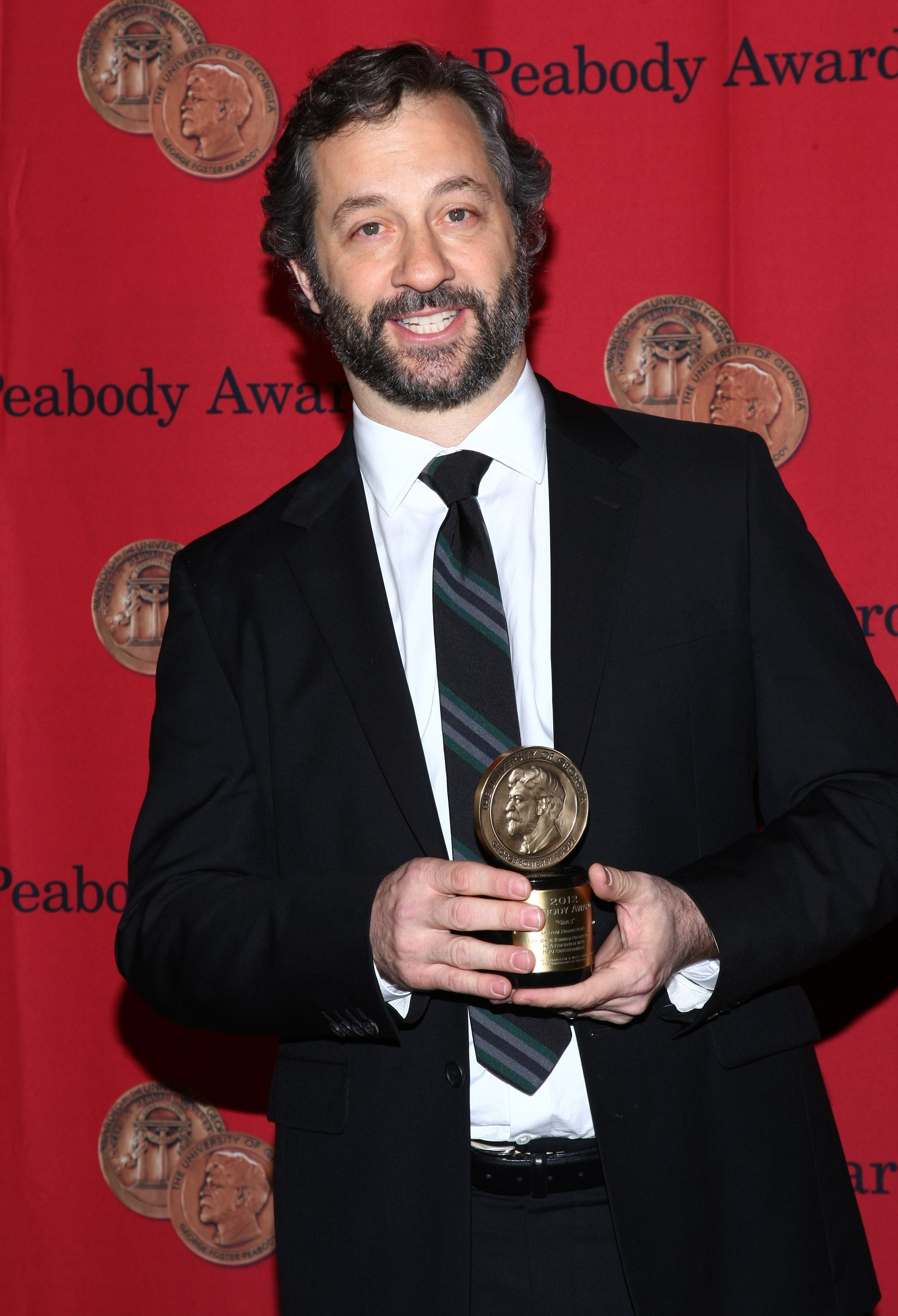 PHOTO CREDIT: ANDERS KRUSBERG / PEABODY AWARDS Judd Apatow at the72nd Annual Peabody Awards Luncheon for "Girls" Waldorf-Astoria Hotel May 20, 2013